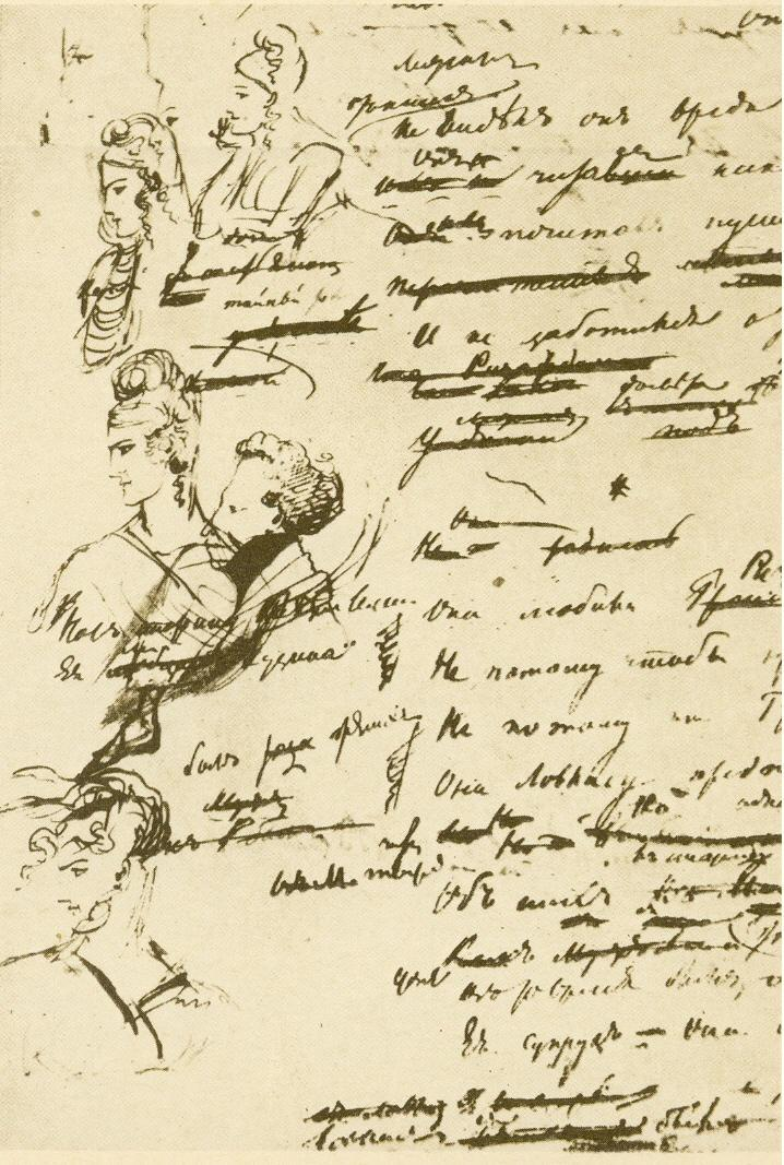 Autograph of Eugene Onegin (2nd canto)